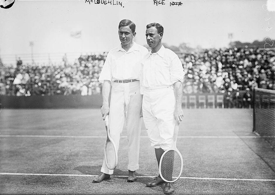 Bain News Service,, publisher. McLoughlin and Rice [tennis] [no date recorded on caption card] 1 negative : glass ; 5 x 7 in. or smaller. Notes: Title from unverified data provided by the Bain News Service on the negatives or caption cards. Forms part of: George Grantham Bain Collection (Library of Congress). Format: Glass negatives. Repository: Library of Congress, Prints and Photographs Division, Washington, D.C. 20540 USA, General information about the Bain Collection is available at Persistent URL: Call Number: LC-B2- 2712-10